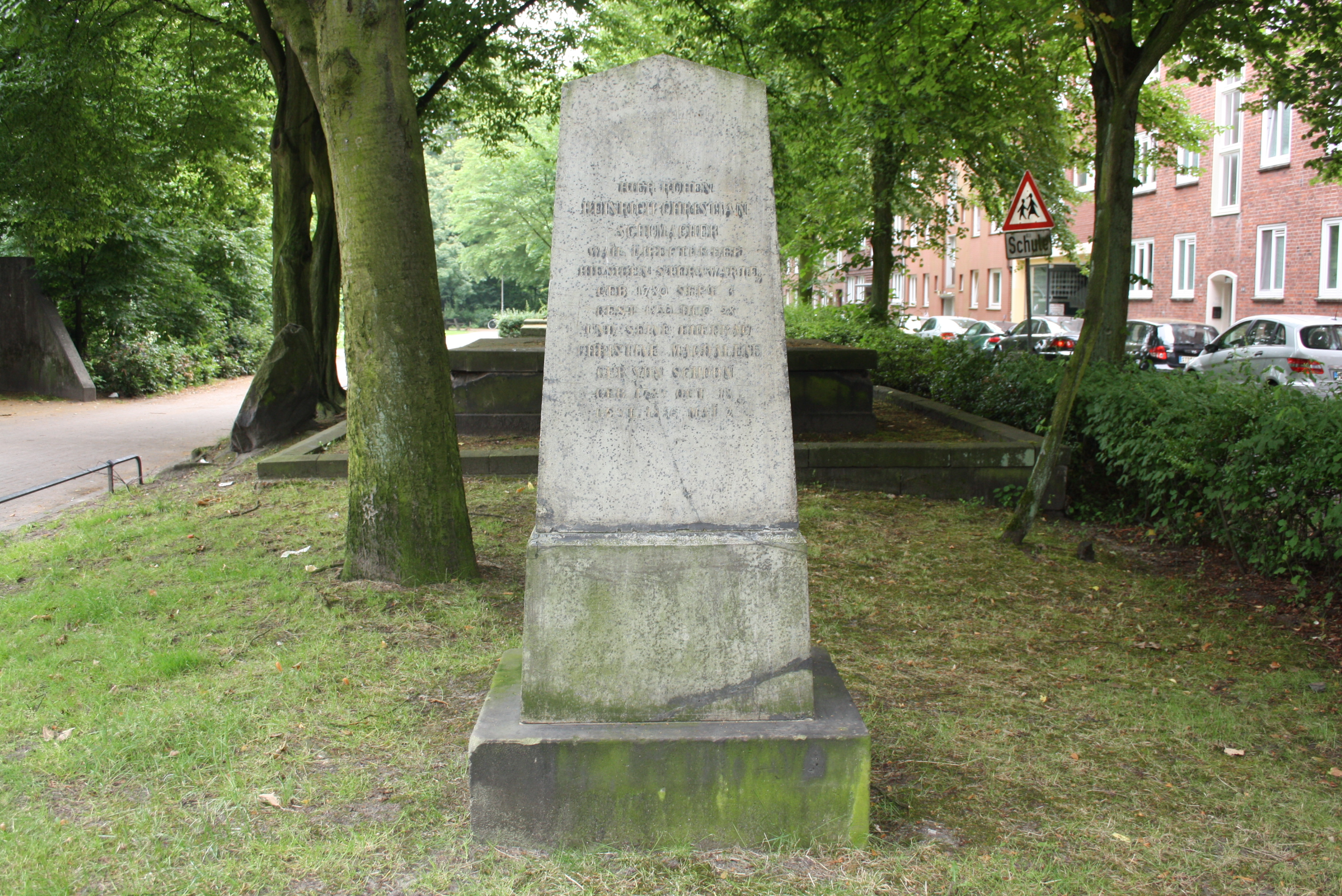 Headstone of the astronomer H.C. Schumacher and his wife at the Heilig-Geist graveyard in Hamburg Altona. The graveyard is not used any longer.